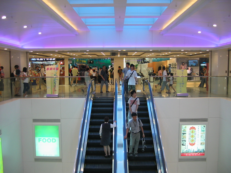 Shatin PLAZA VOID